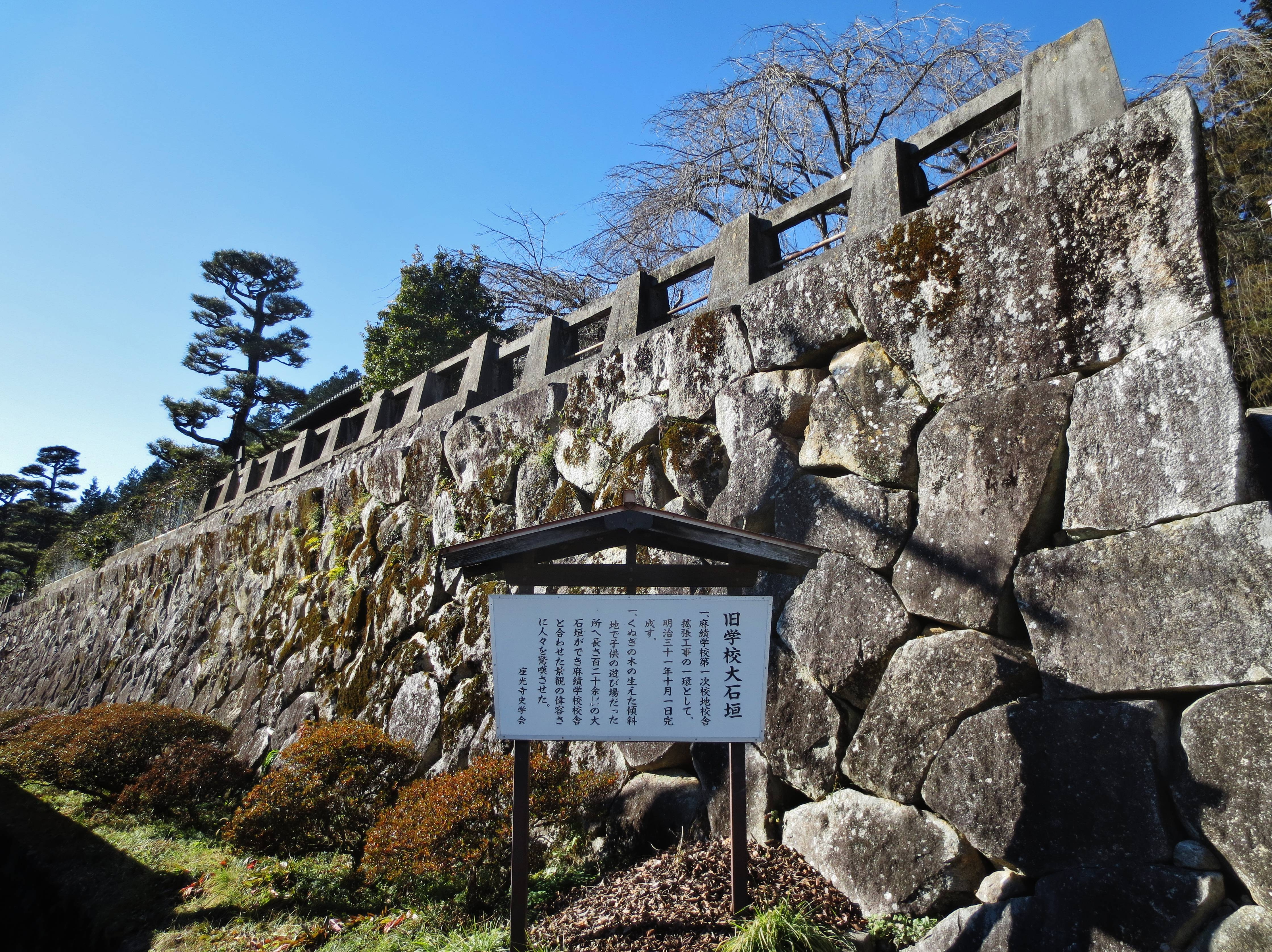 Former Zakoji Omi School stone wall.